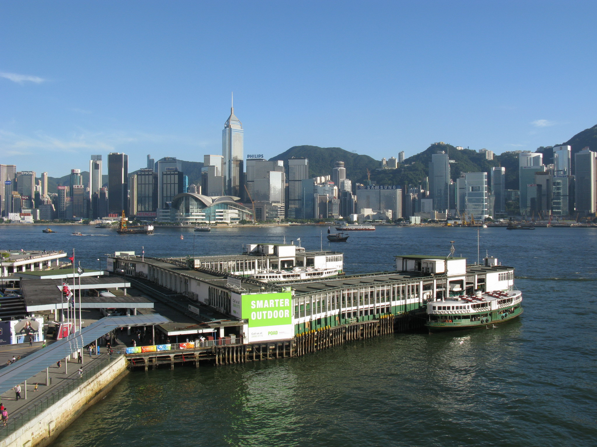 Tsim Sha Tsui Ferry Pier ("Star Ferry Pier") in Kowloon, Hong Kong. Across the bay is Wan Chai. An unidentified Star Ferry vessel at the pier.